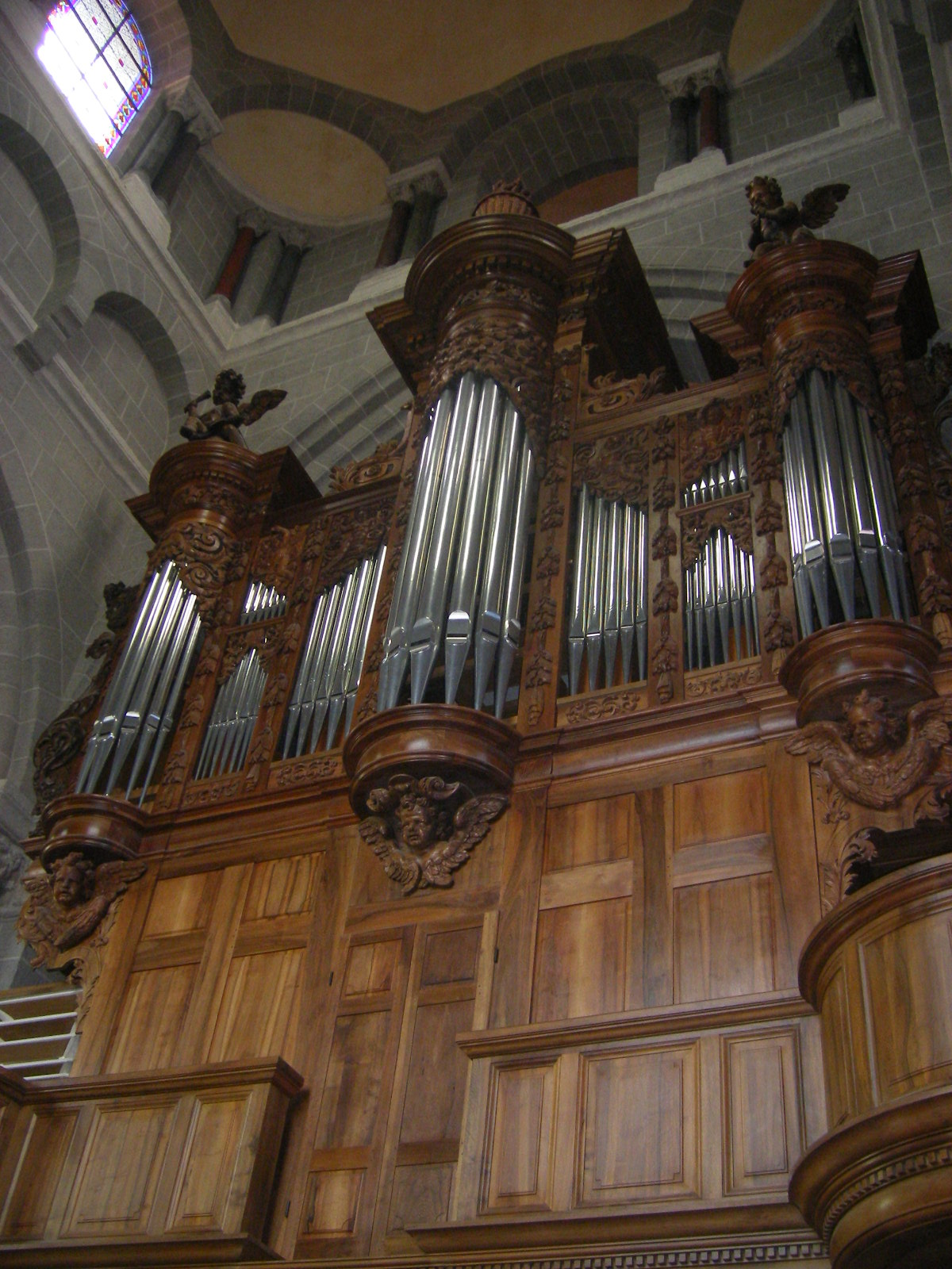 Organ at the Cathedral, Le Puy